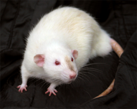 Velvet the rat